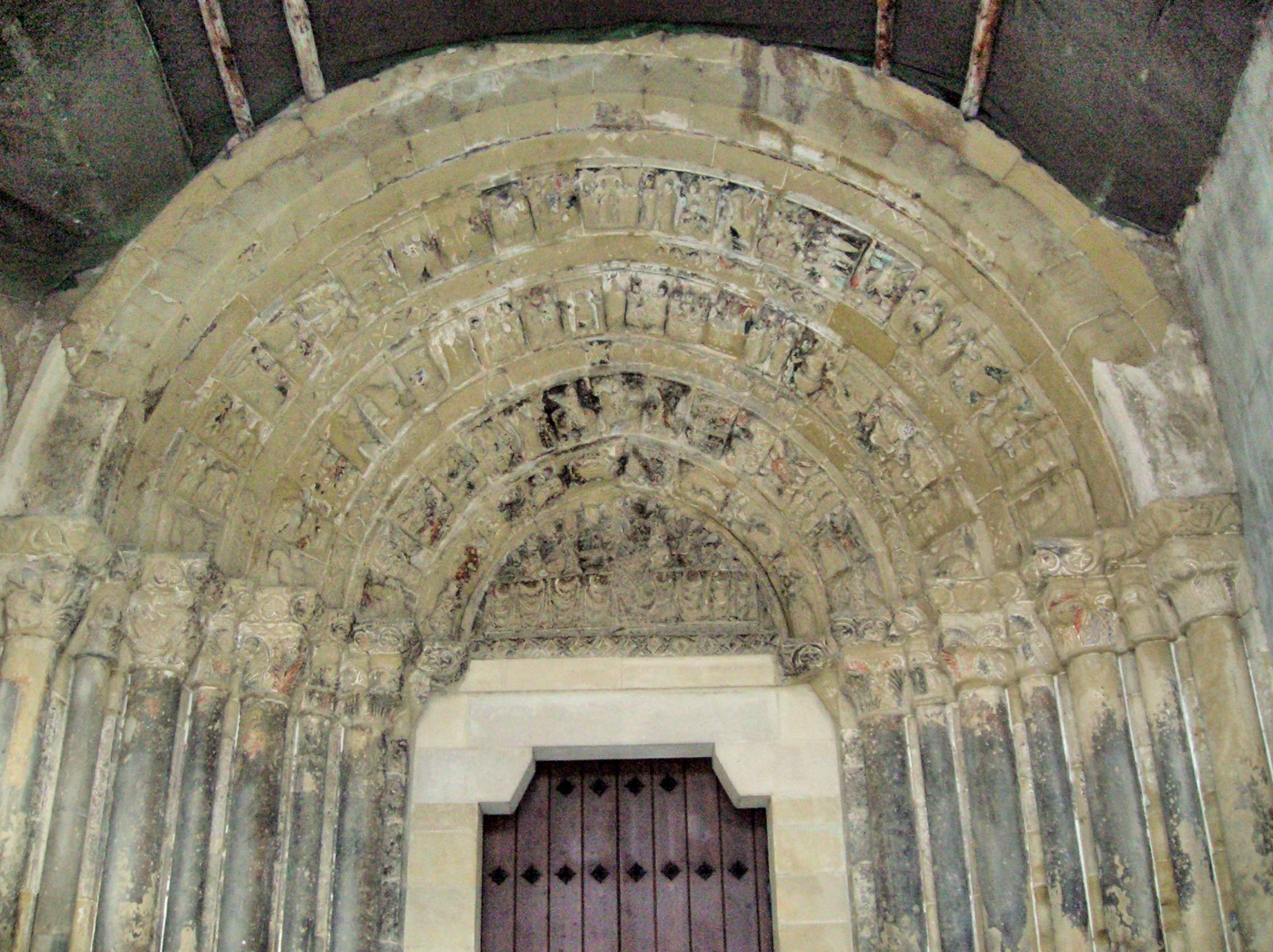 Portada románica de la iglesia de San Salvador (Ejea de los Caballeros)